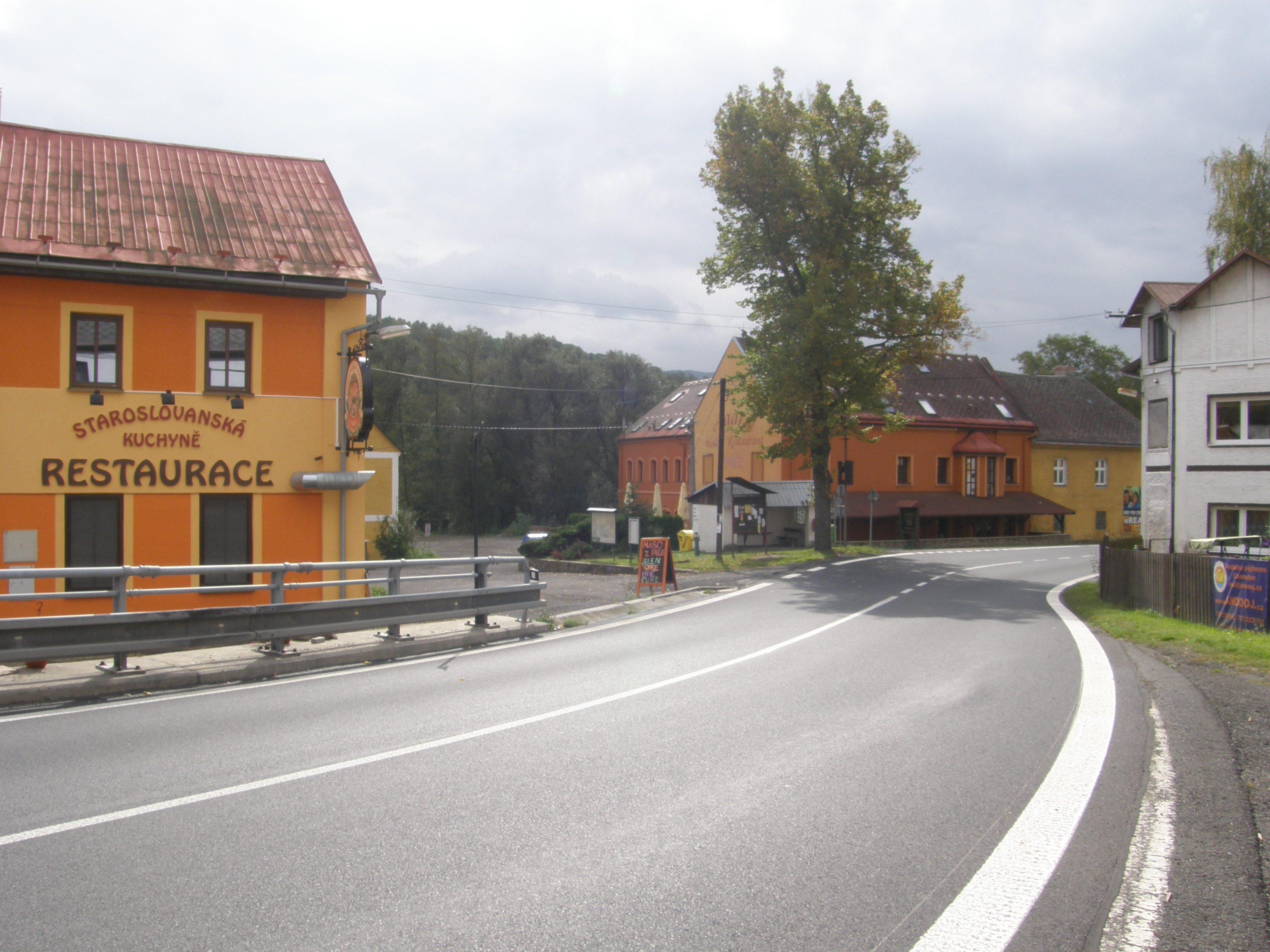 Boč, part of Stráž nad Ohří